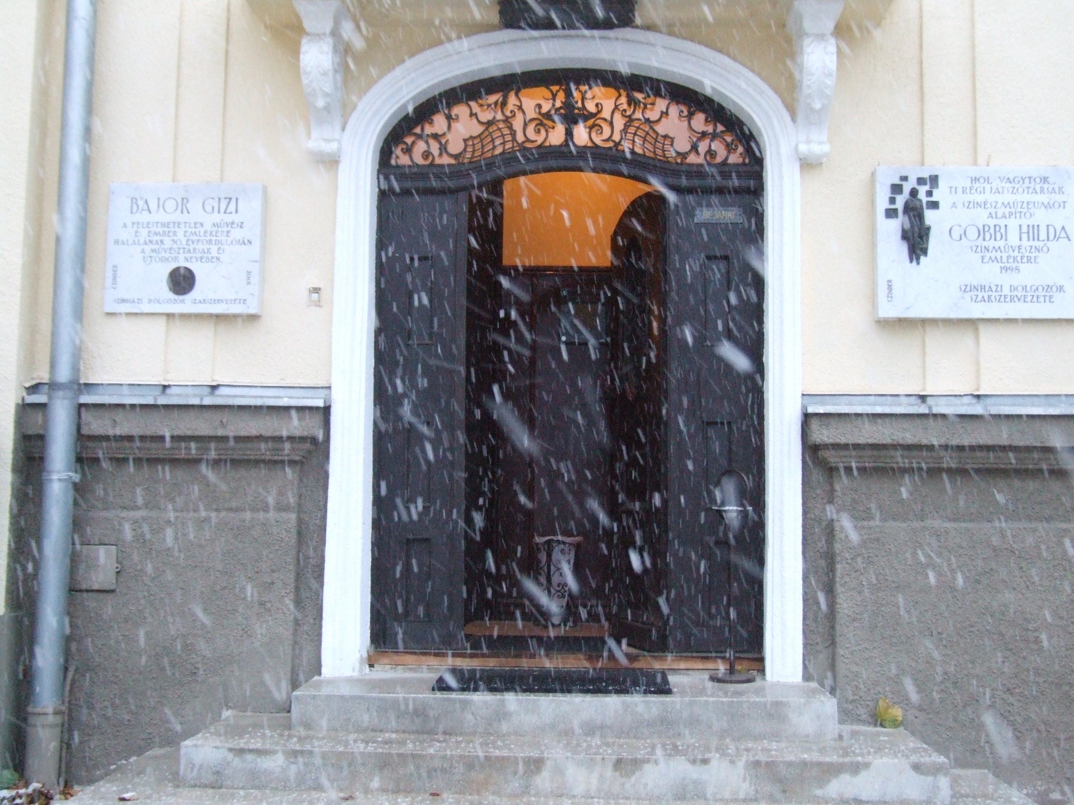 Gizi Bajor és Hilda Gobbi commemorative plaque at the museum entrance.